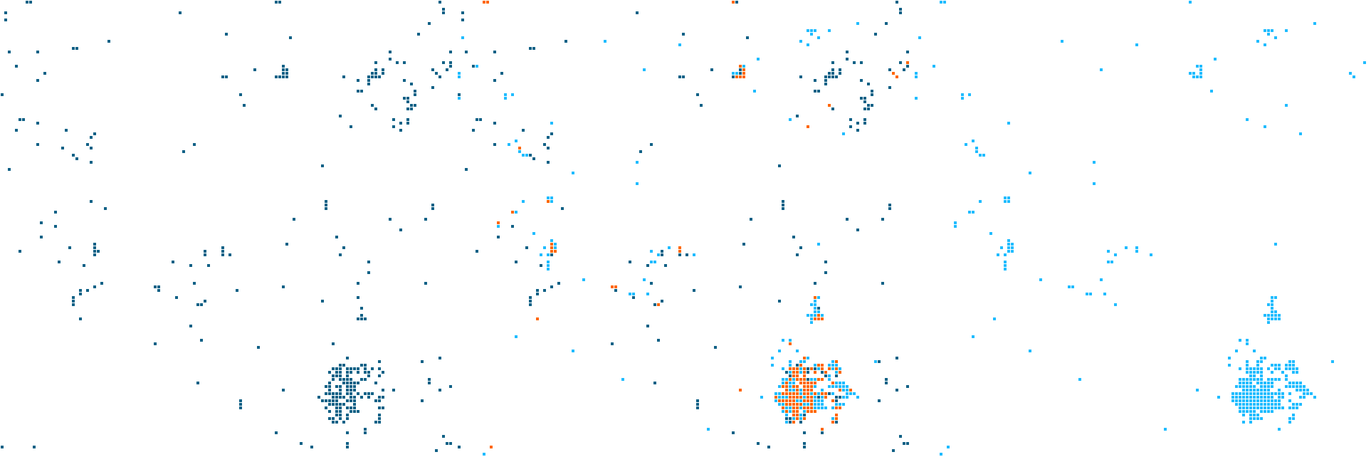 This image shows that the semantic fingerprint representation enables a direct visual comparison of the semantics of two terms, with the example of two terms with overlapping contexts like "jaguar" and "Porsche". It illustrates the page Semantic folding.